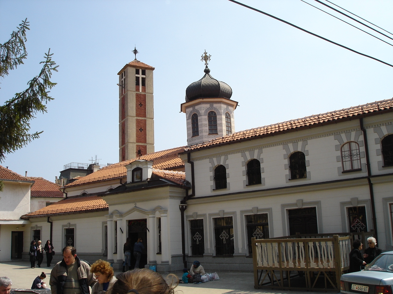 The Church of Holly Mother of God in Bitola, Macedonia